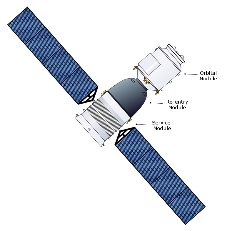 Diagram illustrates the post S-7 Shenzhou spacecraft and to some extent is based off of this image. Made with Gimp. Font: Sans Text size: 17 Text displayed: Orbital Module, Re-entry Module, Service Module